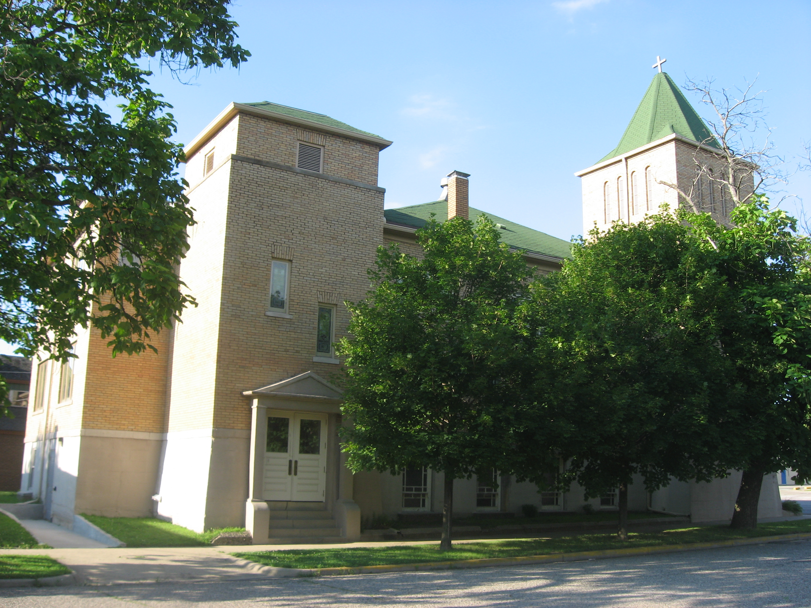 Southern side of the Allen Chapel African Methodist Episcopal Church, located at 224 Crawford Street in Terre Haute, Indiana, United States. Built in 1930, it is listed on the National Register of Historic Places.